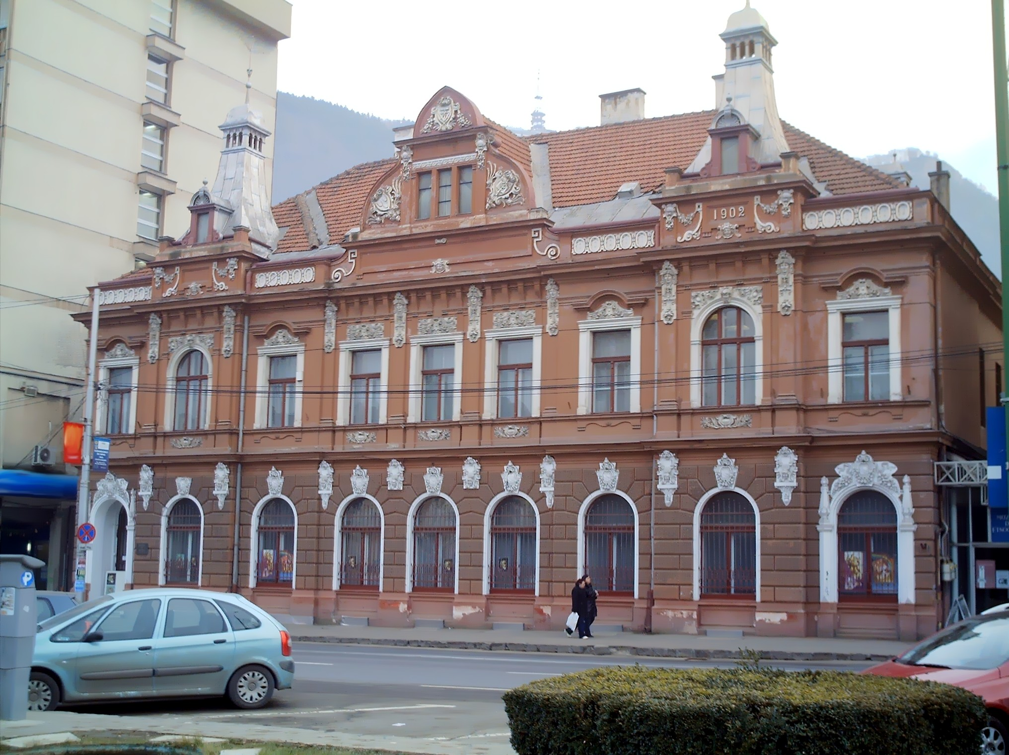 Braşov, Art Museum.